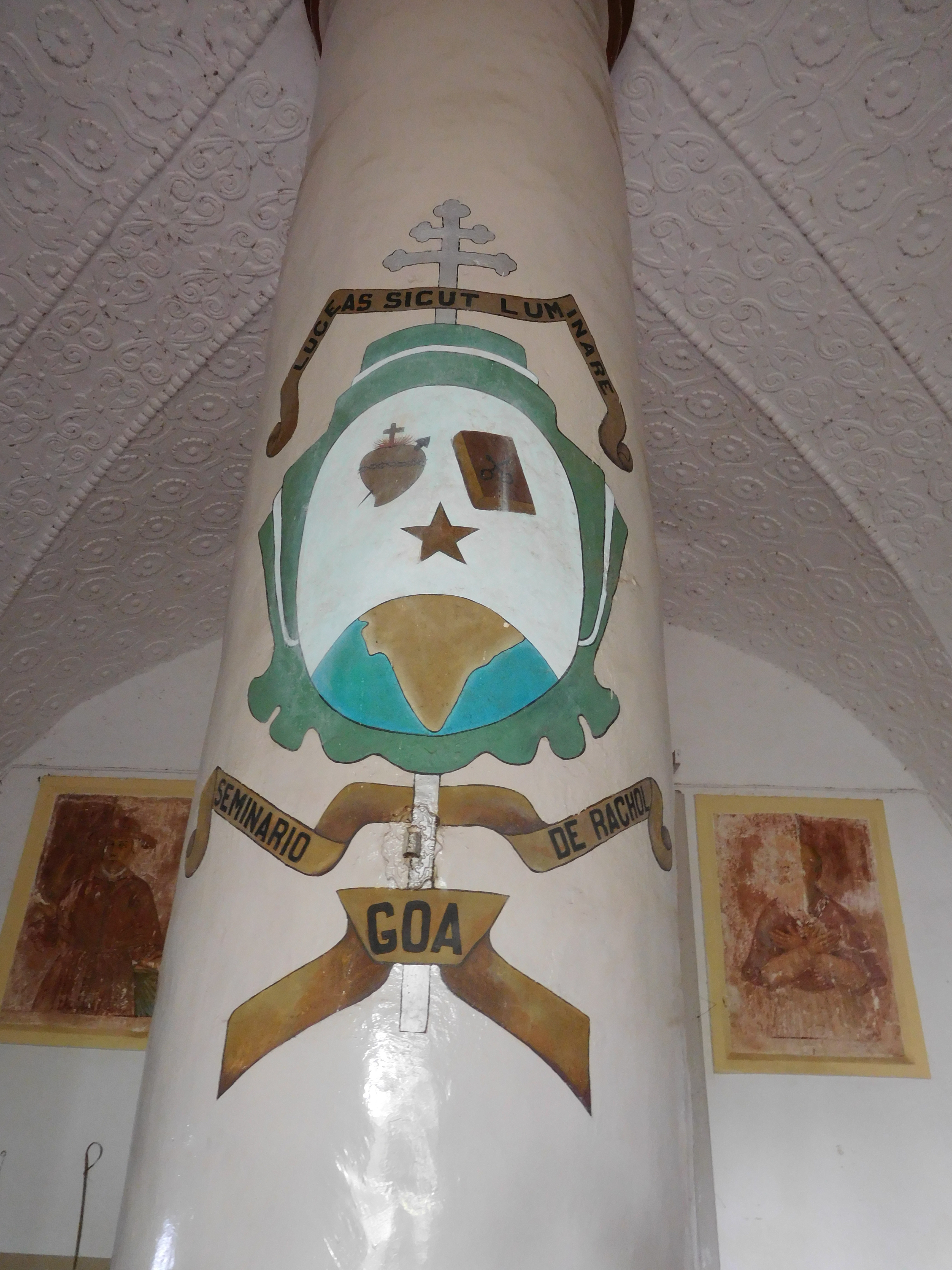 Rachol Seminary shield, on a pilar in the entrance hall (Goa)